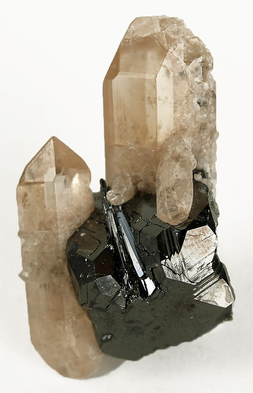 Bixbyite, Topaz Locality: Solarwind Claim, Thomas Range (North), Thomas Range, Juab County, Utah, USA (Locality at ) Size: thumbnail, 2.6 x 1.7 x 1.1 cm BIXBYITE on TOPAZ This is a remarkable floating cluster , complete all around, of a 1 cm bixbyite perched astride two doubly-terminated topaz crystals! Obtained from the collector, John Holfert, approx. 10 years ago.